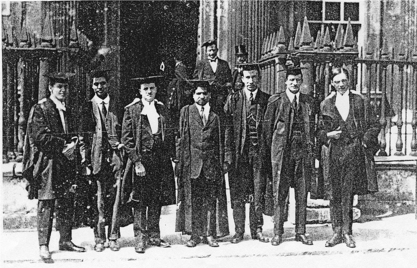 The Indian mathematician Srinivasa Ramanujan (centre) together with his colleague Godfrey Harold Hardy (extreme right) and other scientists outside the Senate House at the University of Cambridge.